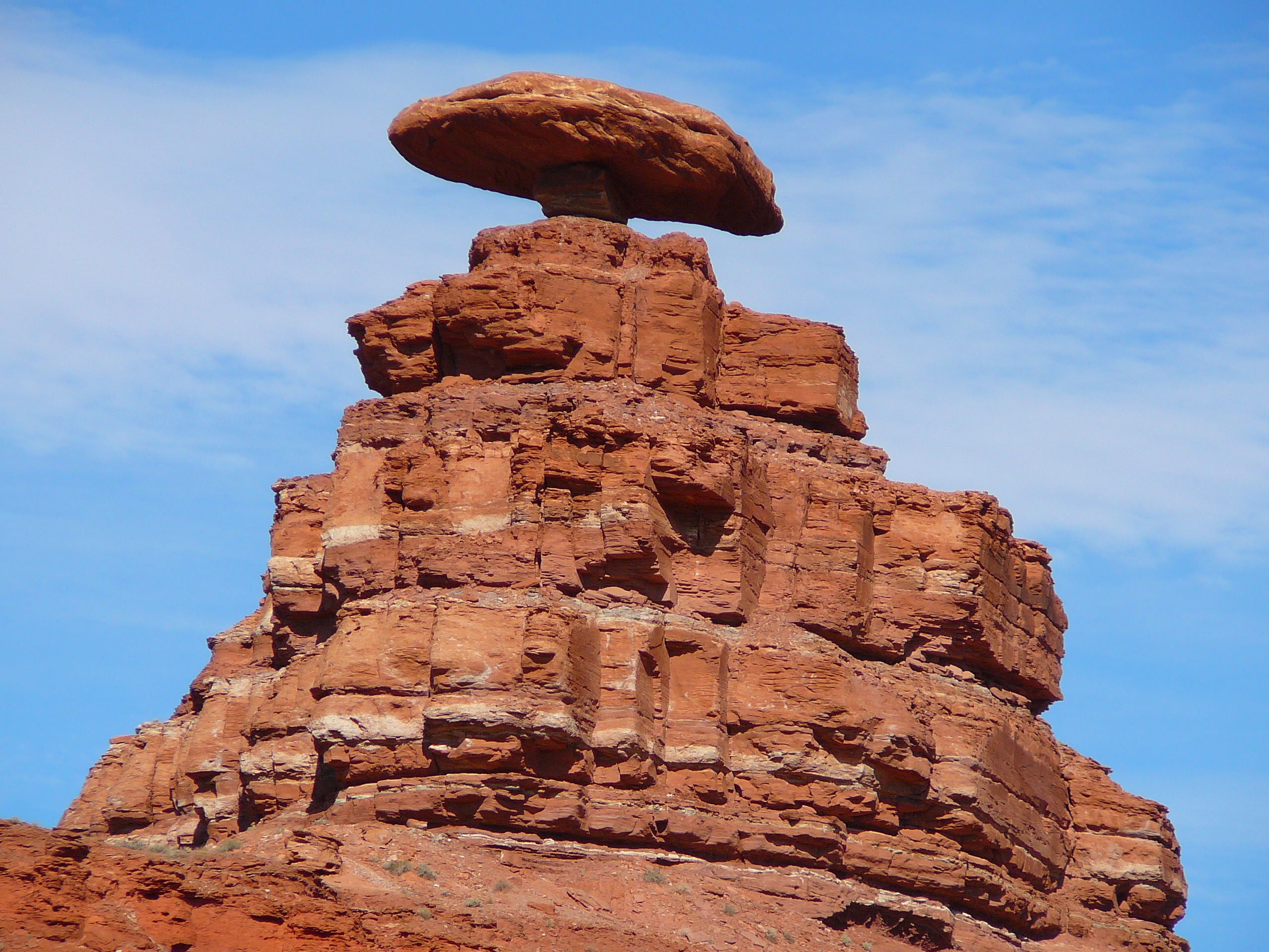 Digital photo taken by Marc Averette. Mexican Hat Rock outside the town of Mexican Hat, Utah